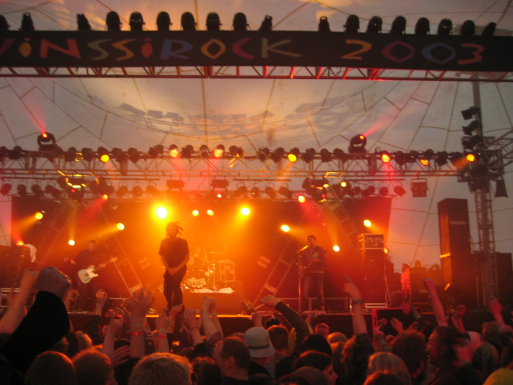 The Rasmus playing in a concert